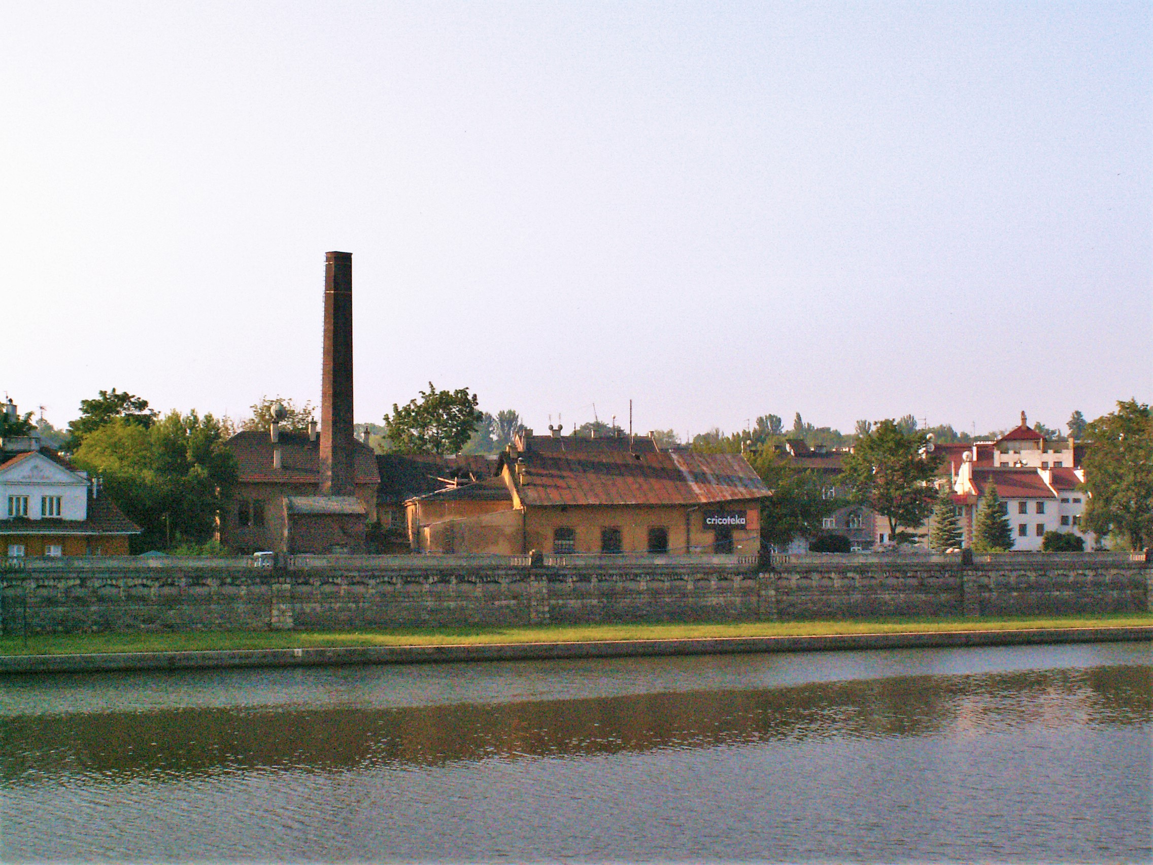 Podgorze old power plant, 4 Nadwislanska street, Krakow, Poland